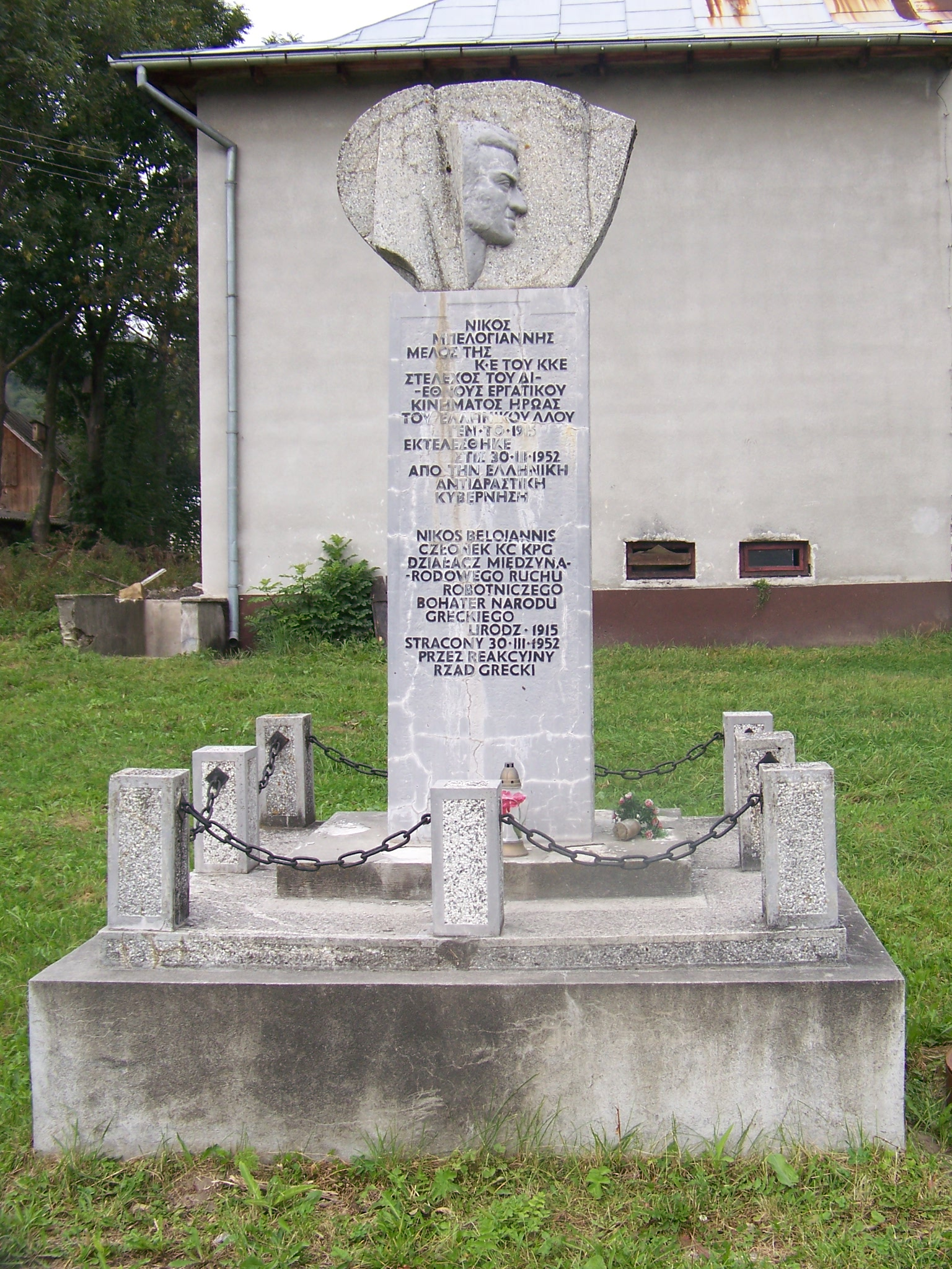 Nikos Beloyannis monument in Krościenko, Bieszczady, Poland